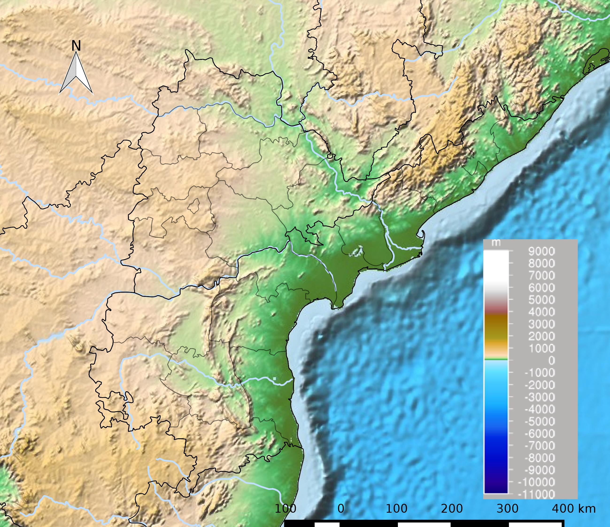 Physical map of Andhra Pradesh and Telangana in India